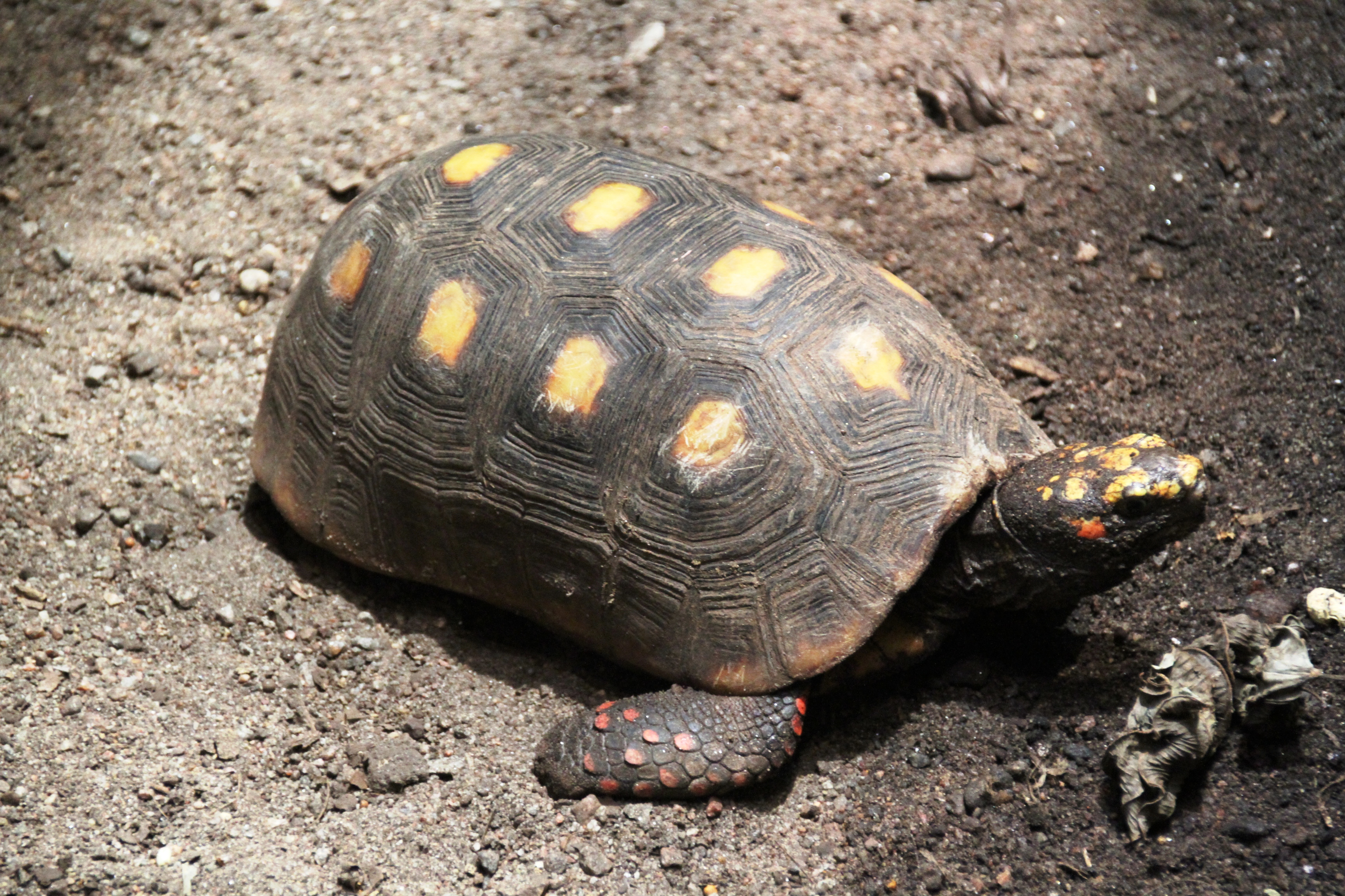 Geochelone carbonaria turtle in the Universeum science park, Gothenburg, Sweden